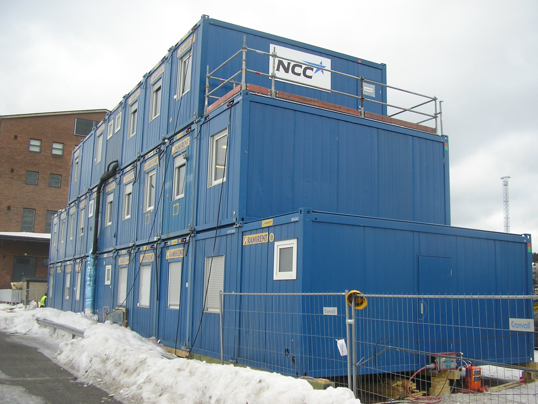 Ramirent portable modules in a construction site in Jyväskylä, Finland